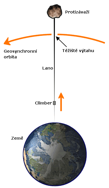 Space elevator structural diagram with Czech description.